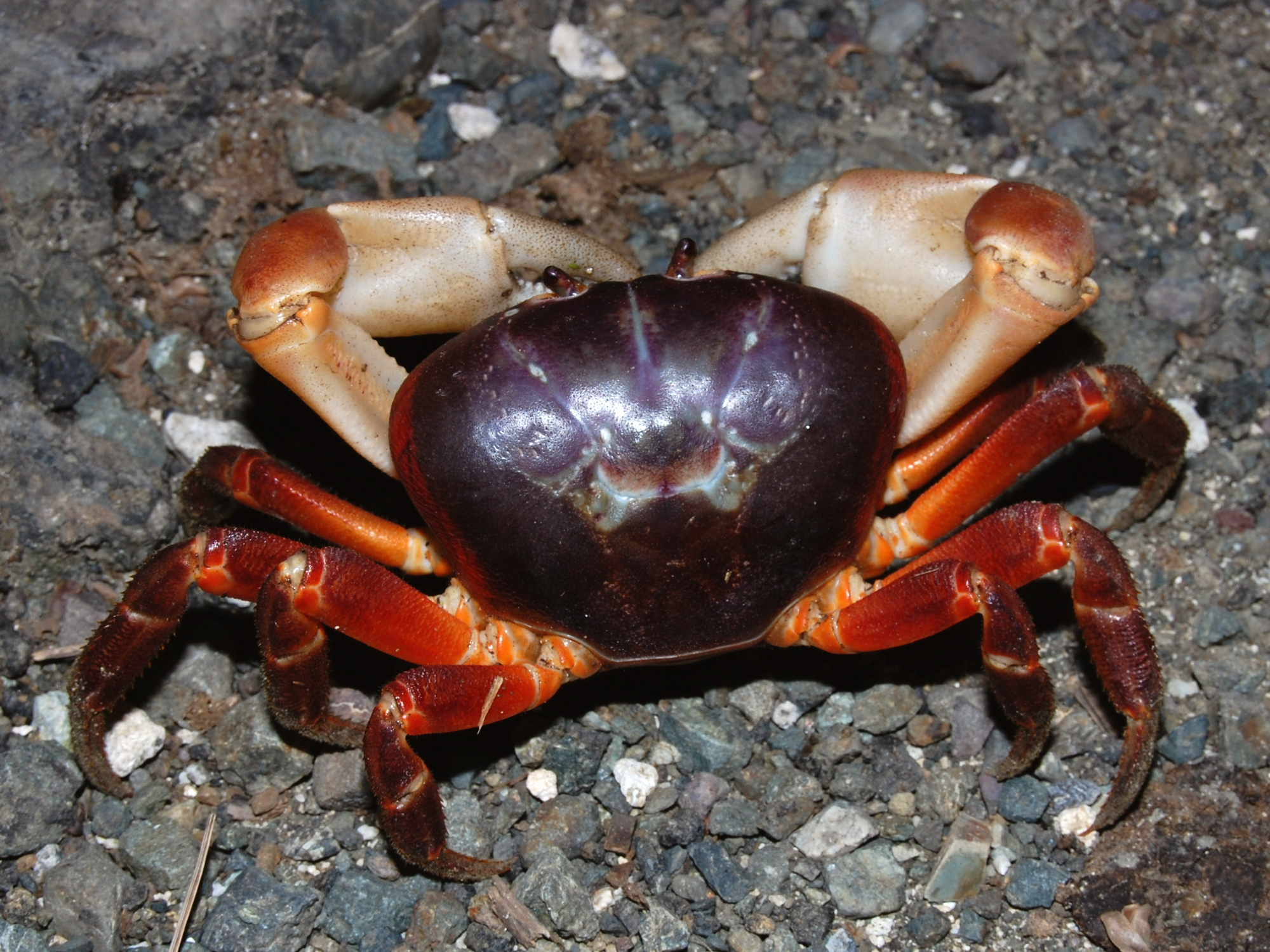 Gecarcoidea lalandii, ca. 10cm CW. Simeulue Island, Aceh, Indonesia.